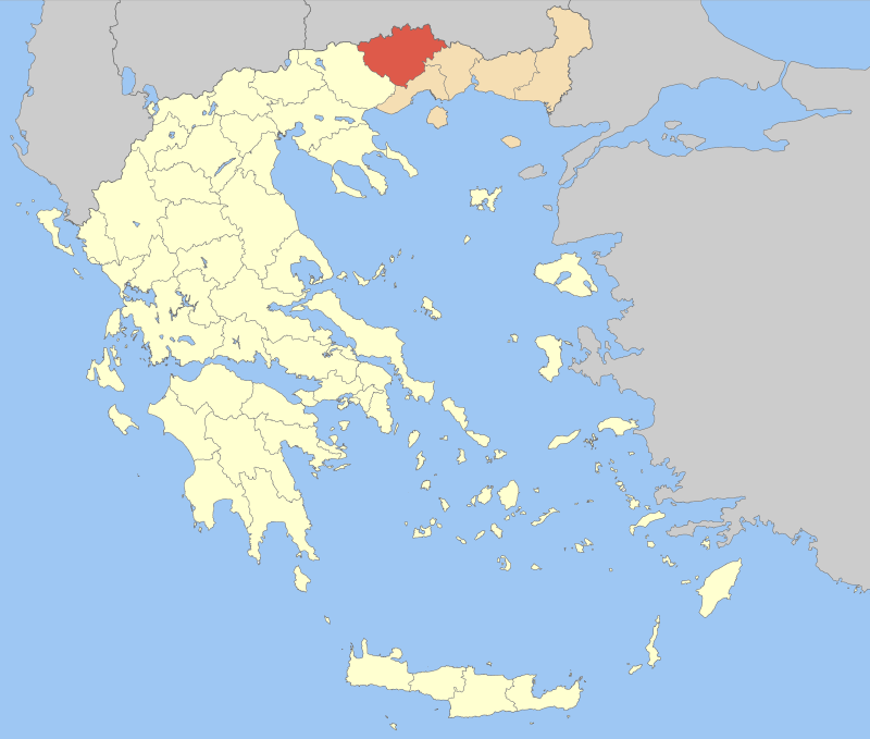 Locator map of Drama prefecture (Νομός Δράμας) in Greece